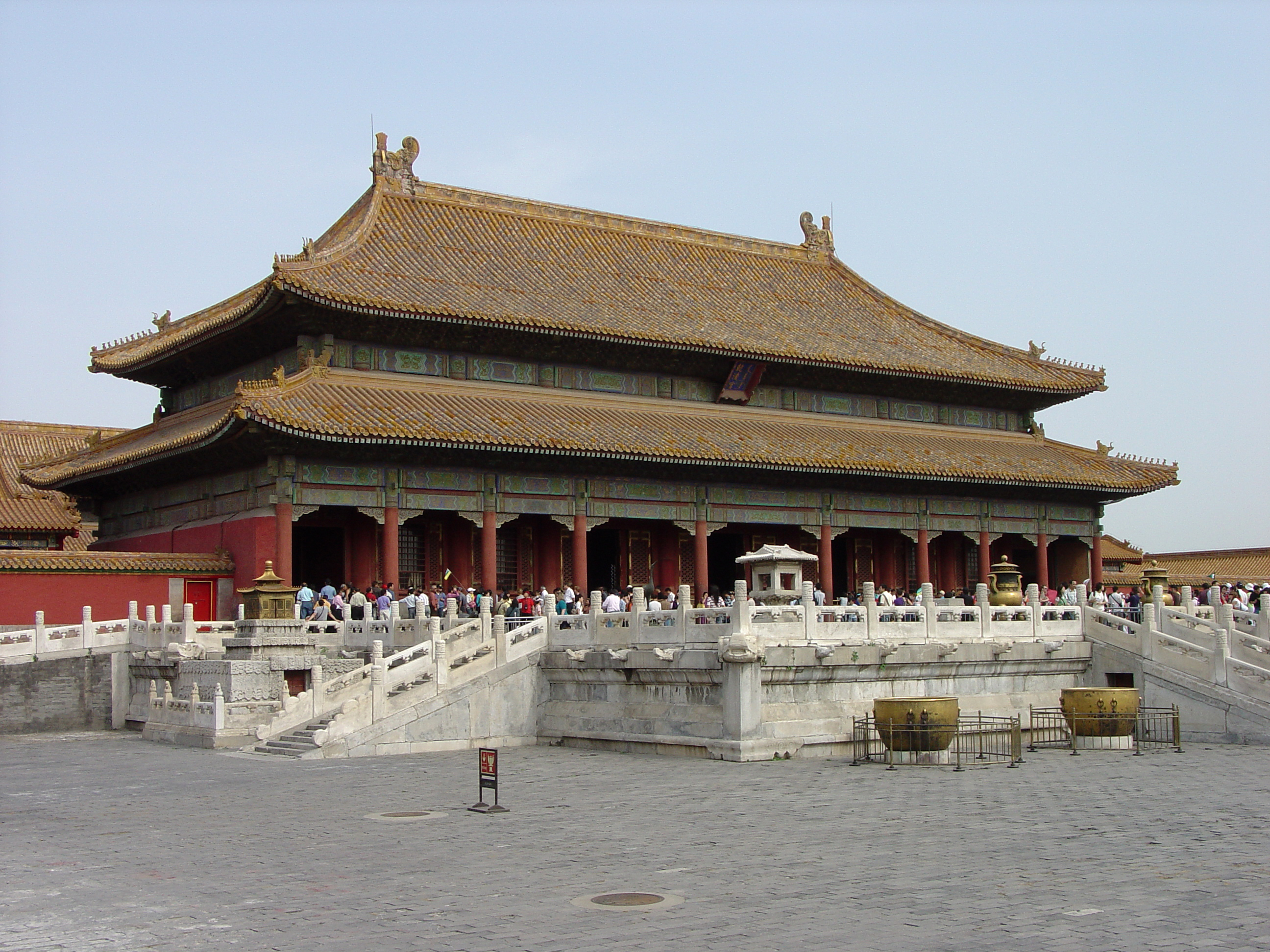 Palace Of Heavenly Purity. Forbidden City, Beijing The double-eaved Palace Of Heavenly Purity is the southernmost, and most important, palace of the inner court. This palace was where the emperor lived during his reign ("Kangxi slept here"), and where he was displayed in state following his death. A high platform supports the building, fronted by several huge bronze cauldrons that held water against the possibility of fire. A different feature, seen in the lower left corner, is a small pagoda or stupa which is said to hold an interment.